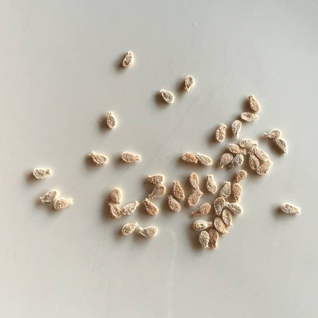 Coccina grandis seeds